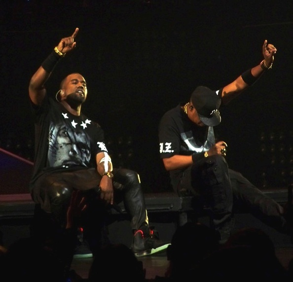 Kanye West and Jay-Z performing at Staples Center on December 11, 2011 in Los Angeles on their Watch the Throne Tour.